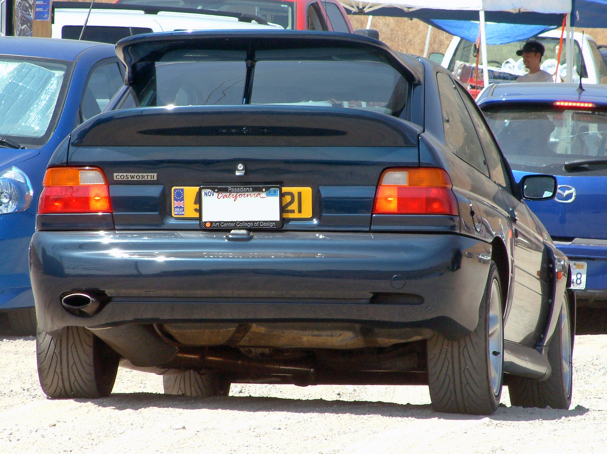 British market Ford Escort RS Cosworth in California. Presumably a "show and exhibition" car.